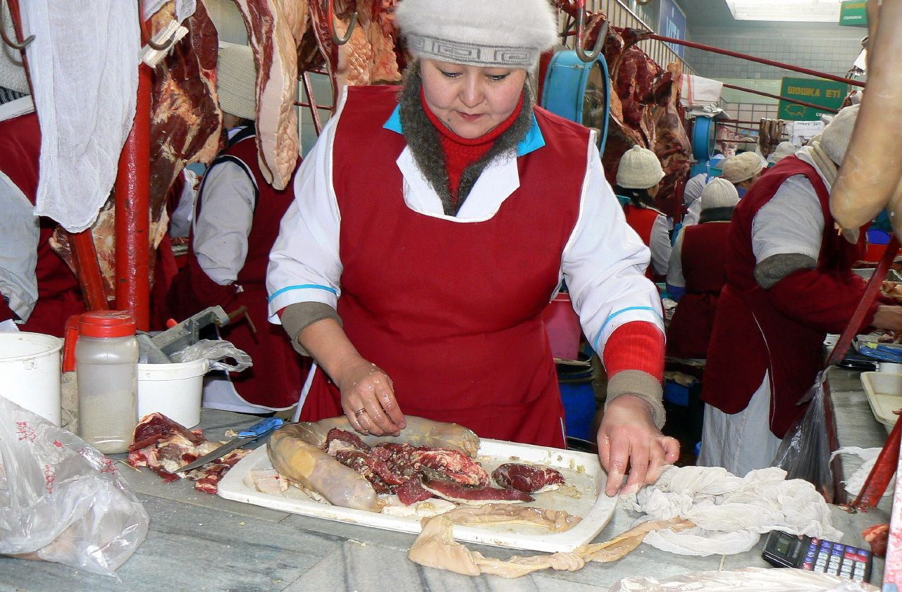 A vendor in the horse meat section of the Green Bazaar making horse sausage.